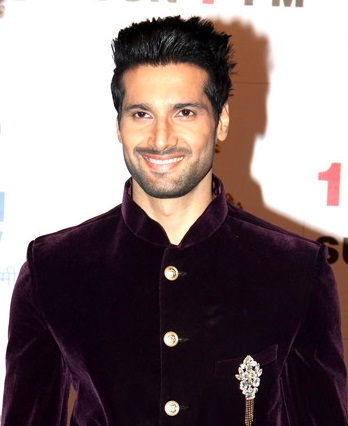 Ahem at Zee Rishte Awards